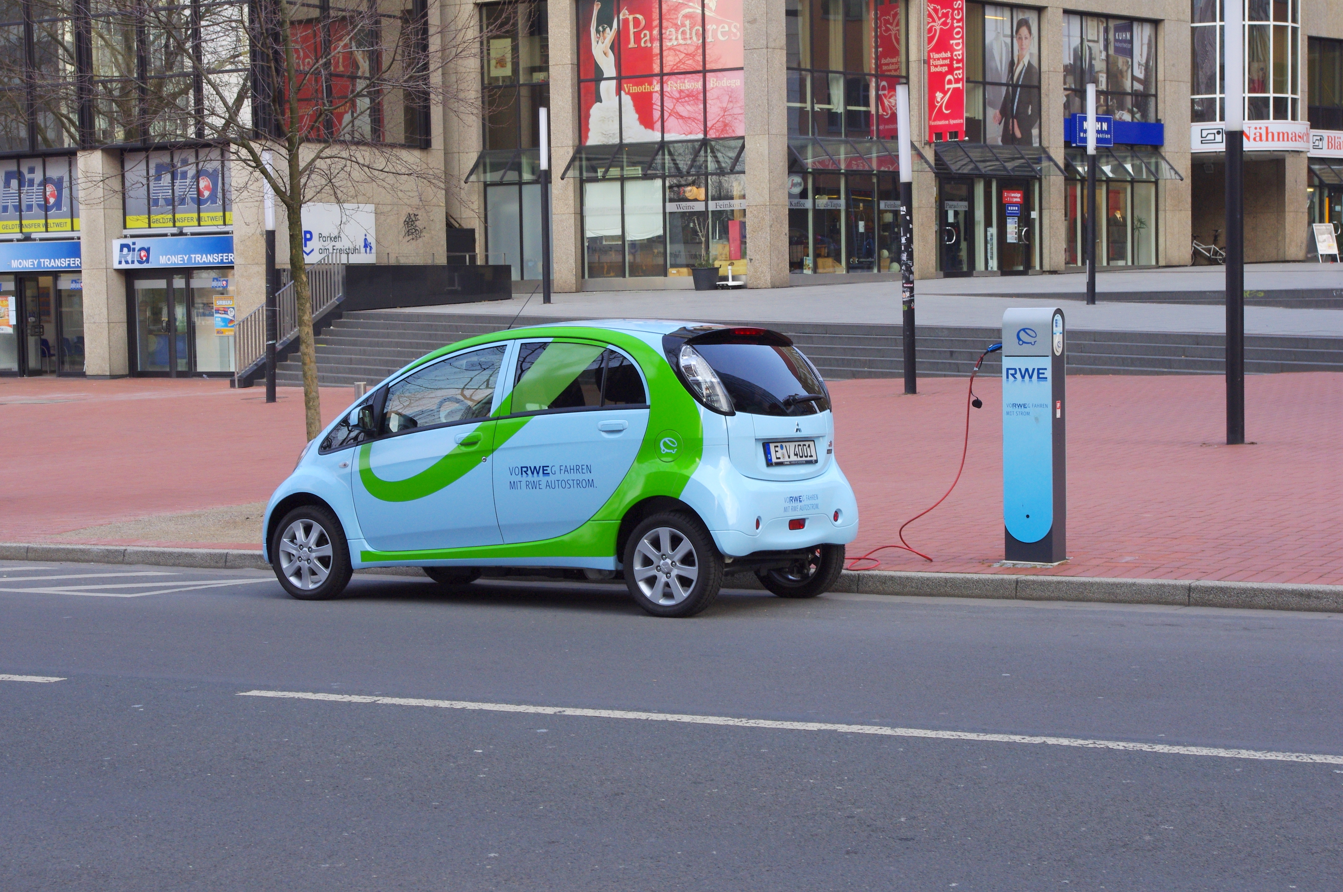 Mitsubishi i-MiEV electric car recharging in city centre of Dortmund